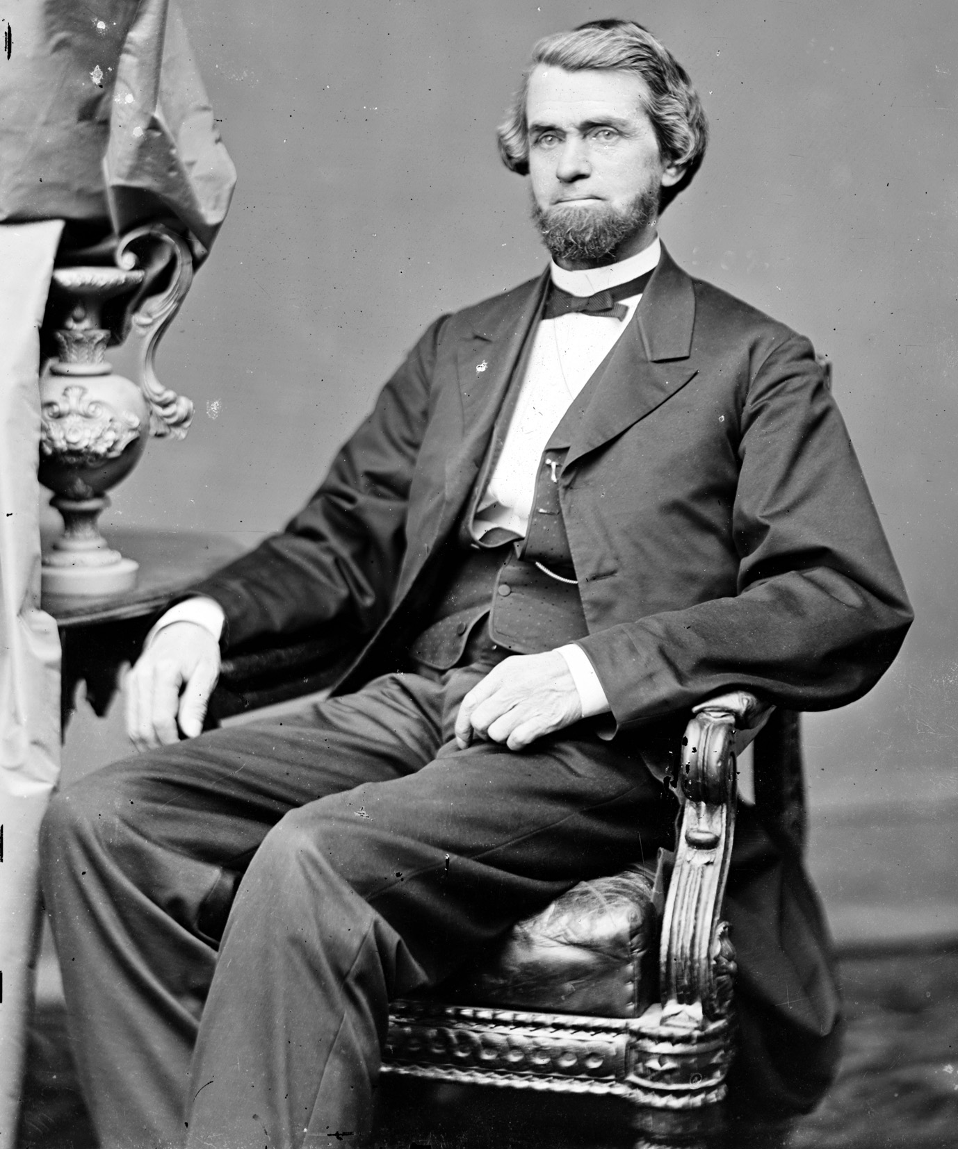 Chester D. Hubbard, US Representative from West Virginia